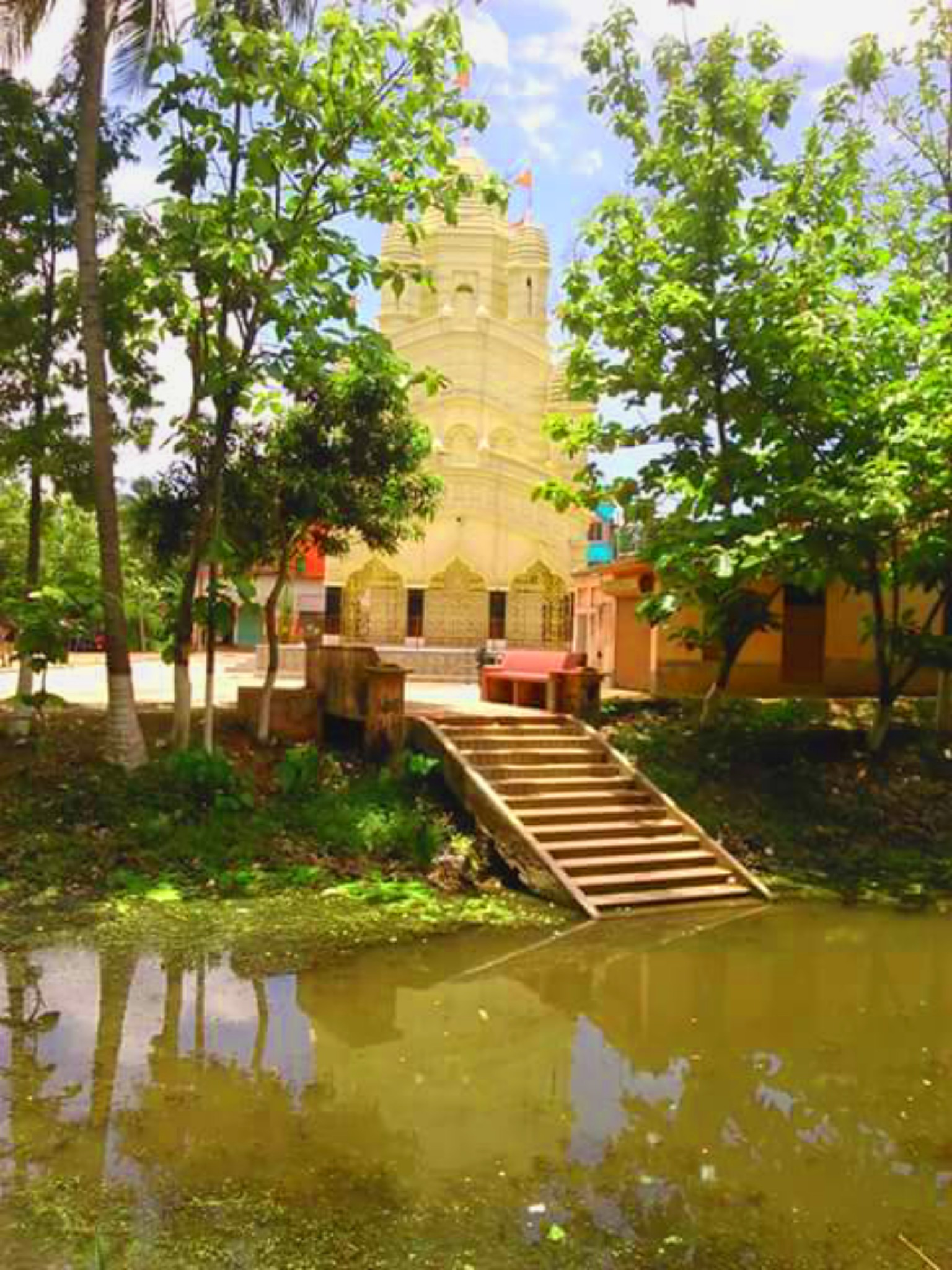 Jagatnagar Kalibari Ghat